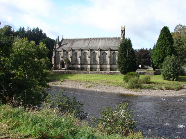 Langholm Parish Church. View across the Esk of the large Georgian-survival parapeted Gothic parish kirk built 1842-6. 989776